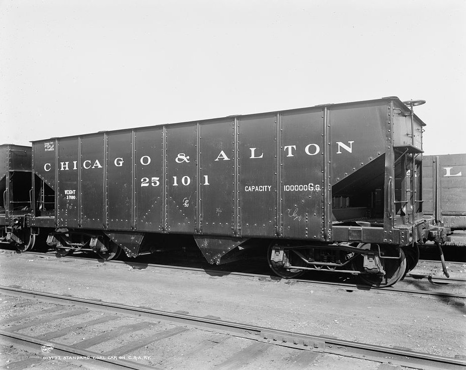 Cropped by the uploader. Title: Standard coal car on C. & A. Ry. [i.e. Chicago & Alton Railway] Related Names: Detroit Publishing Co. , publisher Date Created/Published: [ca. 1900] Medium: 1 negative : glass ; 8 x 10 in. Reproduction Number: LC-DIG-det-4a09155 (digital file from original) Rights Advisory: No known restrictions on publication. Call Number: LC-D4-13777 [P&P] Repository: Library of Congress Prints and Photographs Division Washington, D.C. 20540 USA Notes: Date based on Detroit, Catalogue J Supplement (1901-1906). "878" on negative. Detroit Publishing Co. no. 013777. Gift; State Historical Society of Colorado; 1949. Subjects: Railroad freight cars. Format: Dry plate negatives. Collections: Detroit Publishing Company Part of: Detroit Publishing Company Photograph Collection Bookmark This Record